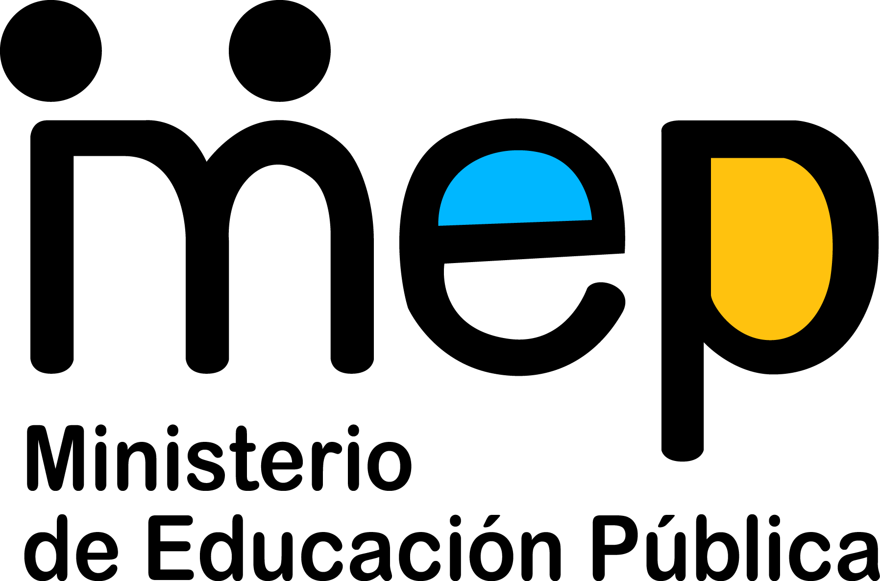 Logo Ministerio de Educación Pública